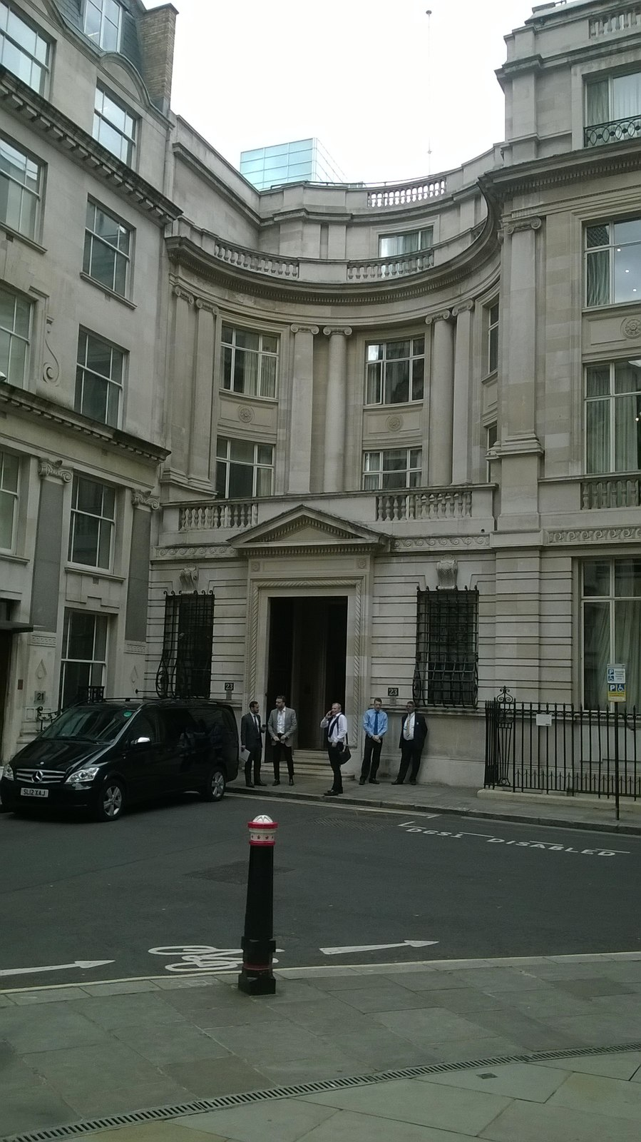 Concave frontage, Great Winchester Street, London EC2